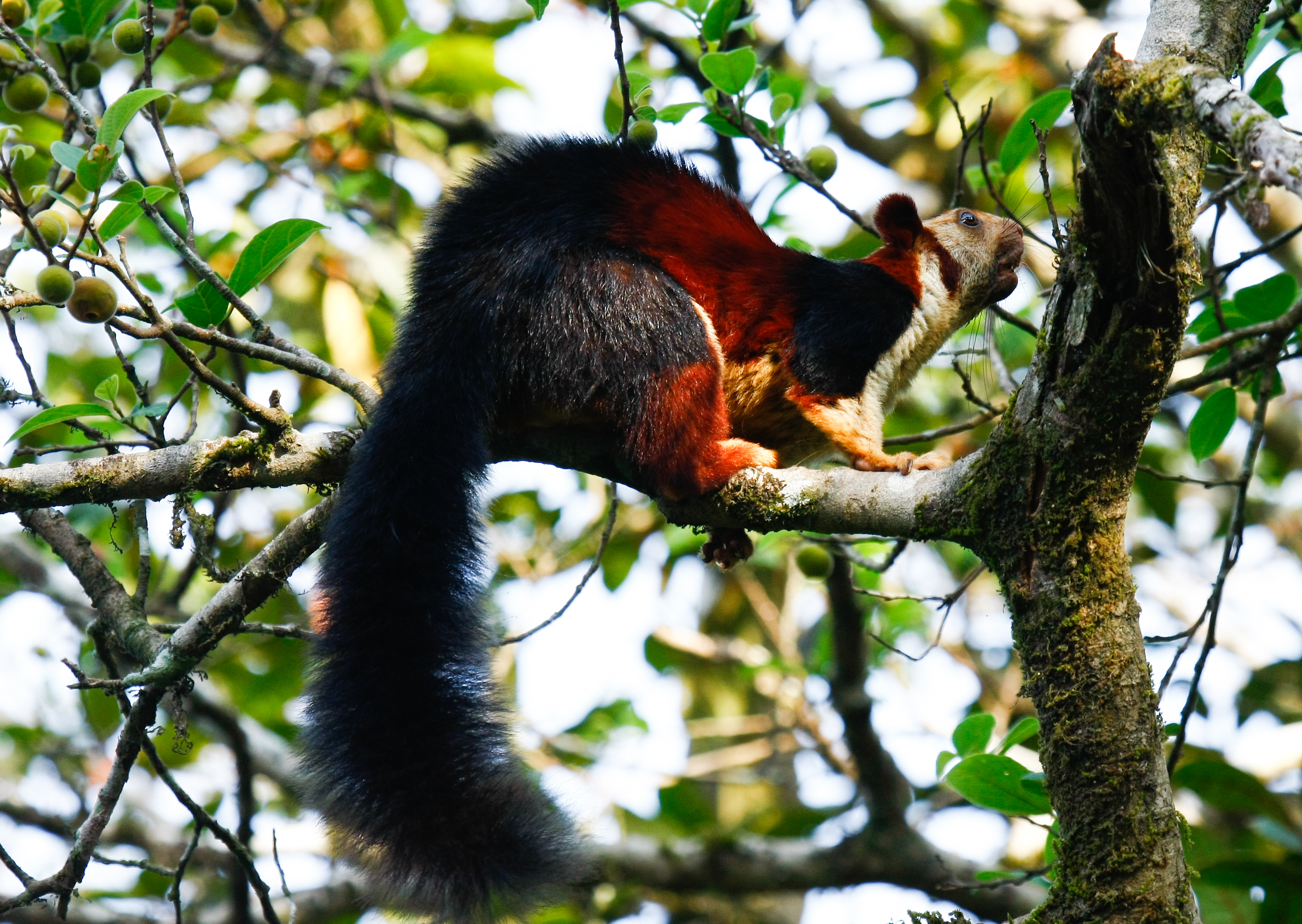 Indian giant squirrel or Malabar giant squirrel (Ratufa indica).